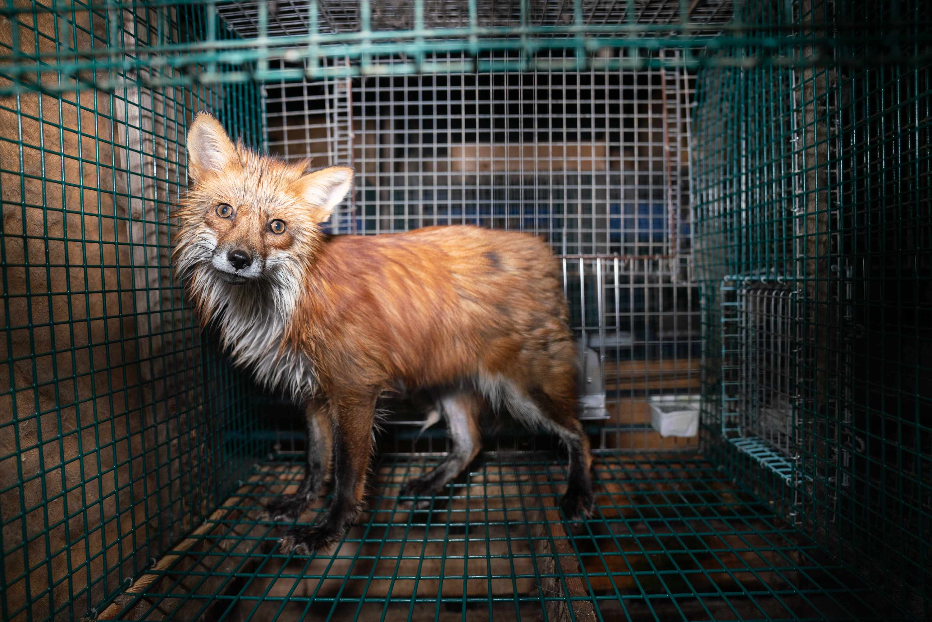 Vörå - Fur farm - July 2020